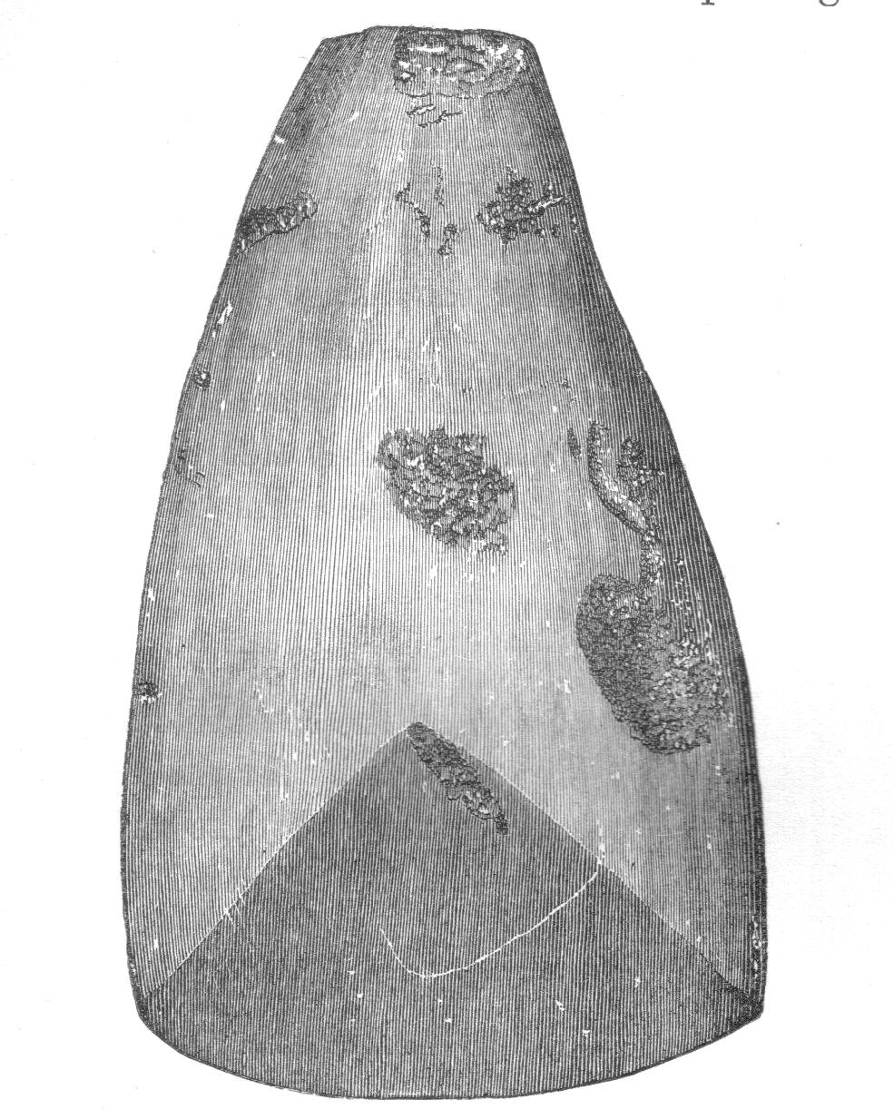 stone axe. own scan from very old book